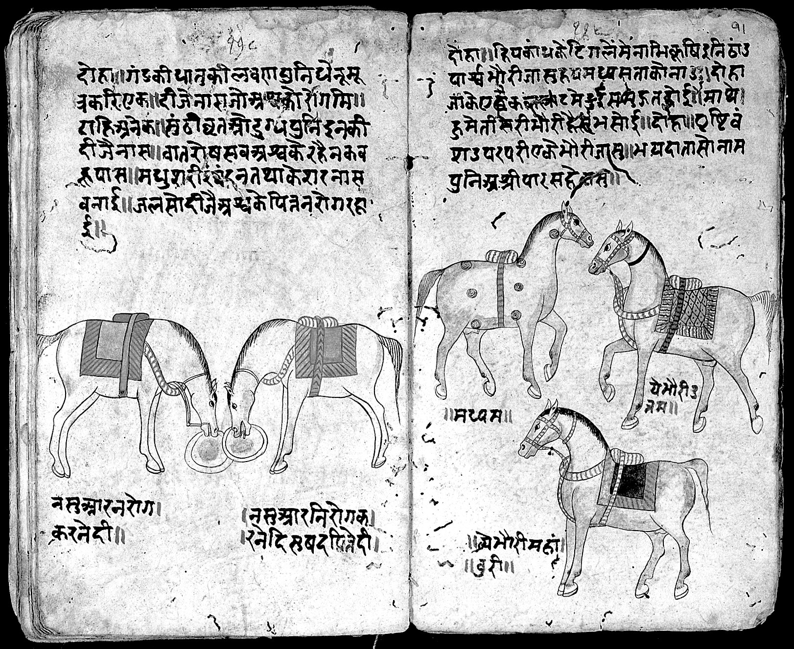 Nakula, Asvacikitsa. folios 90 verso and 91 recto with paintings of horses. Asian Collection Keywords: Veterinary Medicine